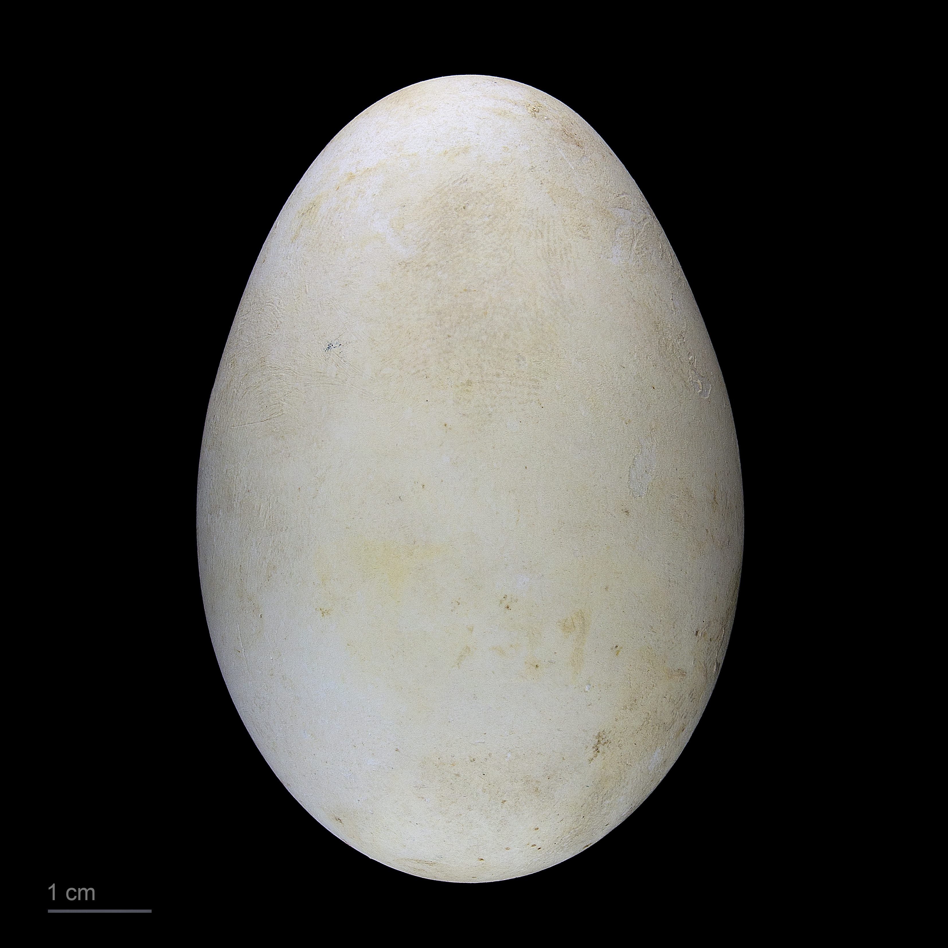 Egg of magnificent frigatebird Collection of Jacques Perrin de Brichambaut.